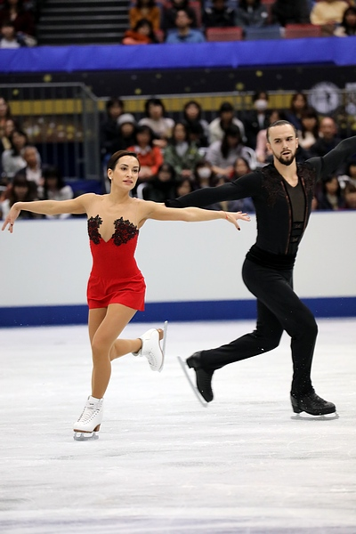 Ksenia Stolbova and Fedor Klimov at the 2017 NHK Trophy.